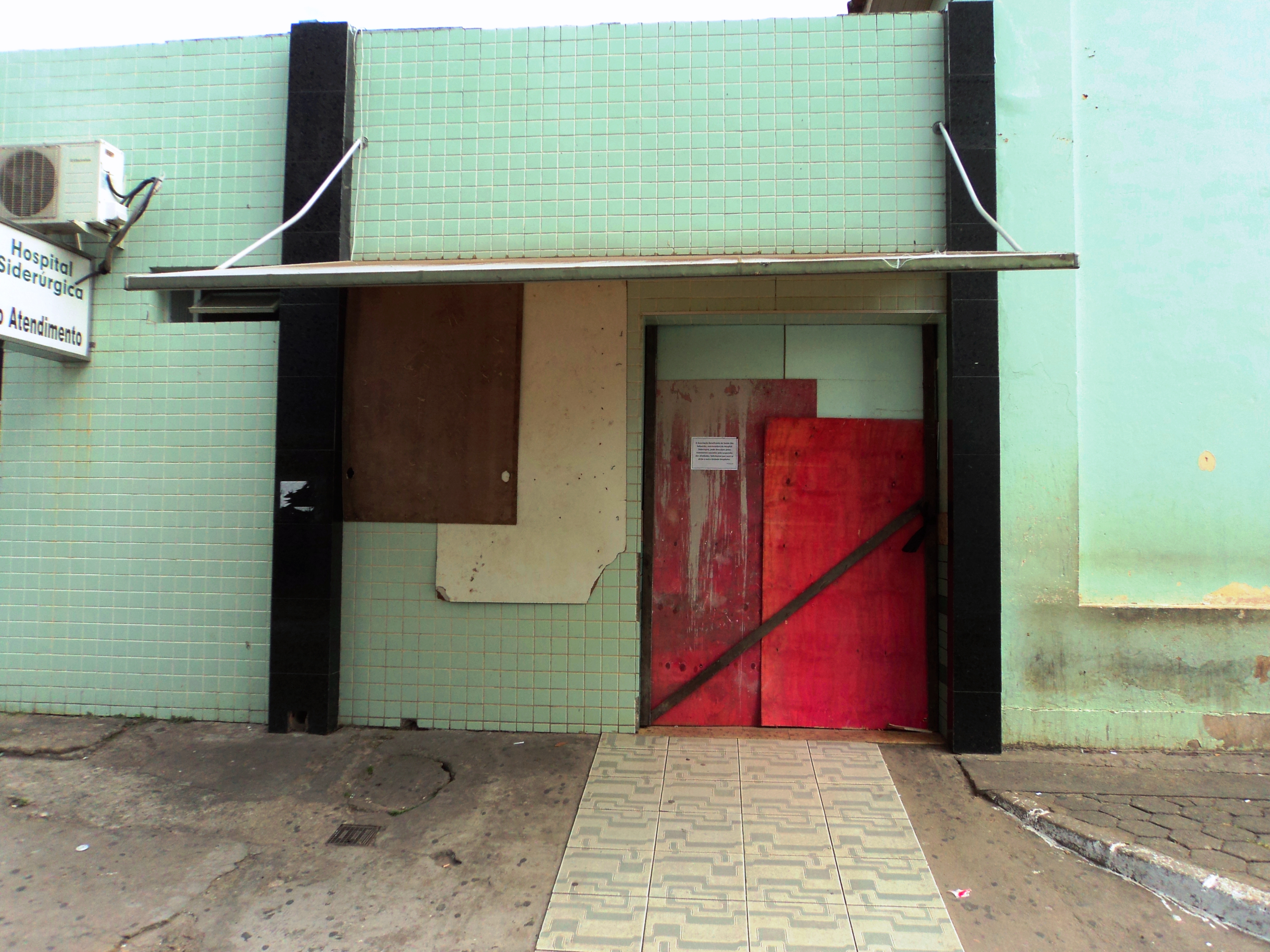 The Siderúrgica Hospital closed, in Coronel Fabriciano, Minas Gerais, Brazil.